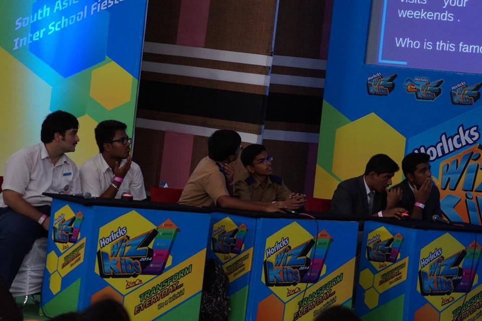 Lucky Kaul "Tummy" and Suhaas in Horlicks Wizkids 2014